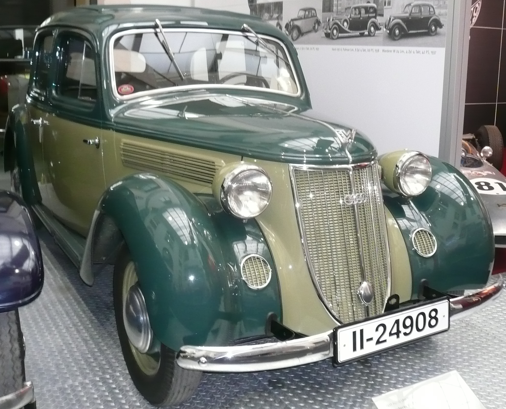 Wanderer W24, 1937. Photo from Museum of Transport, Dresden, Germany.